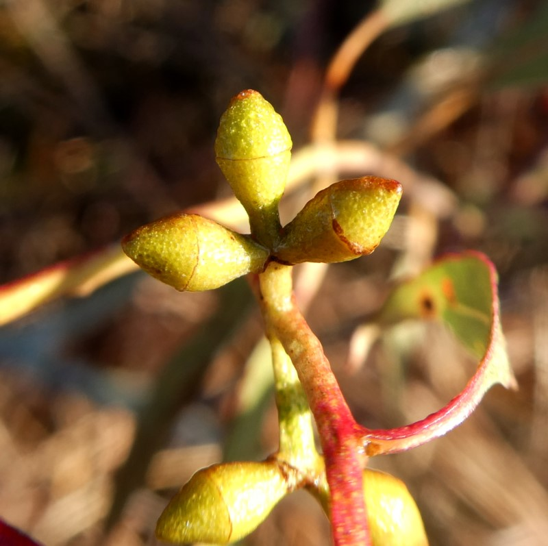 Flower buds of Eucalyptus rubida in the Wandiyali-Environa Conservation Area